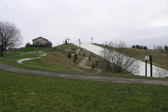 Dry Ski Slope in Swadlincote Derbyshire